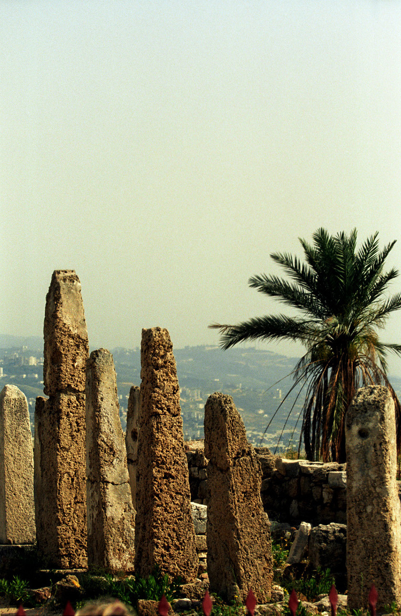 Byblos, Temple of the Obelisks